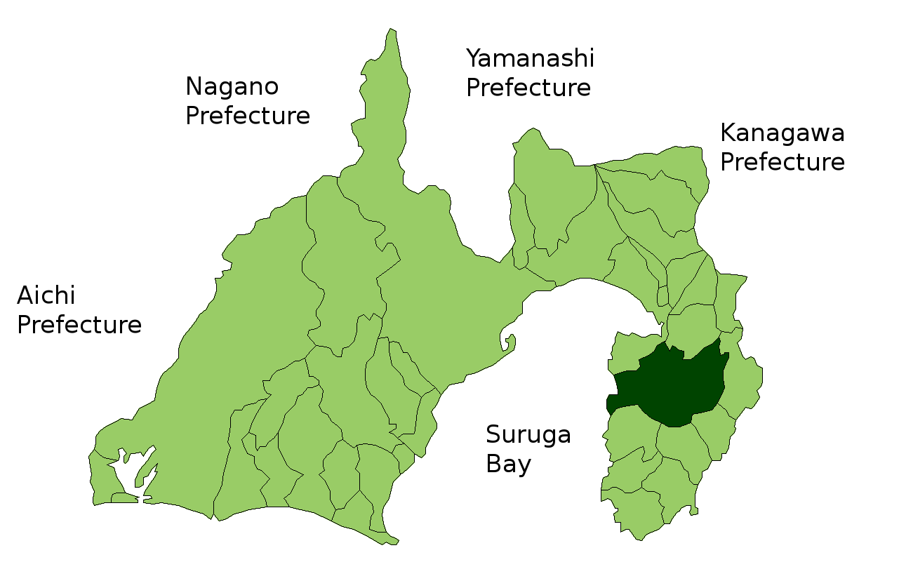 The location of Izu in Shizuoka Prefecture, Japan